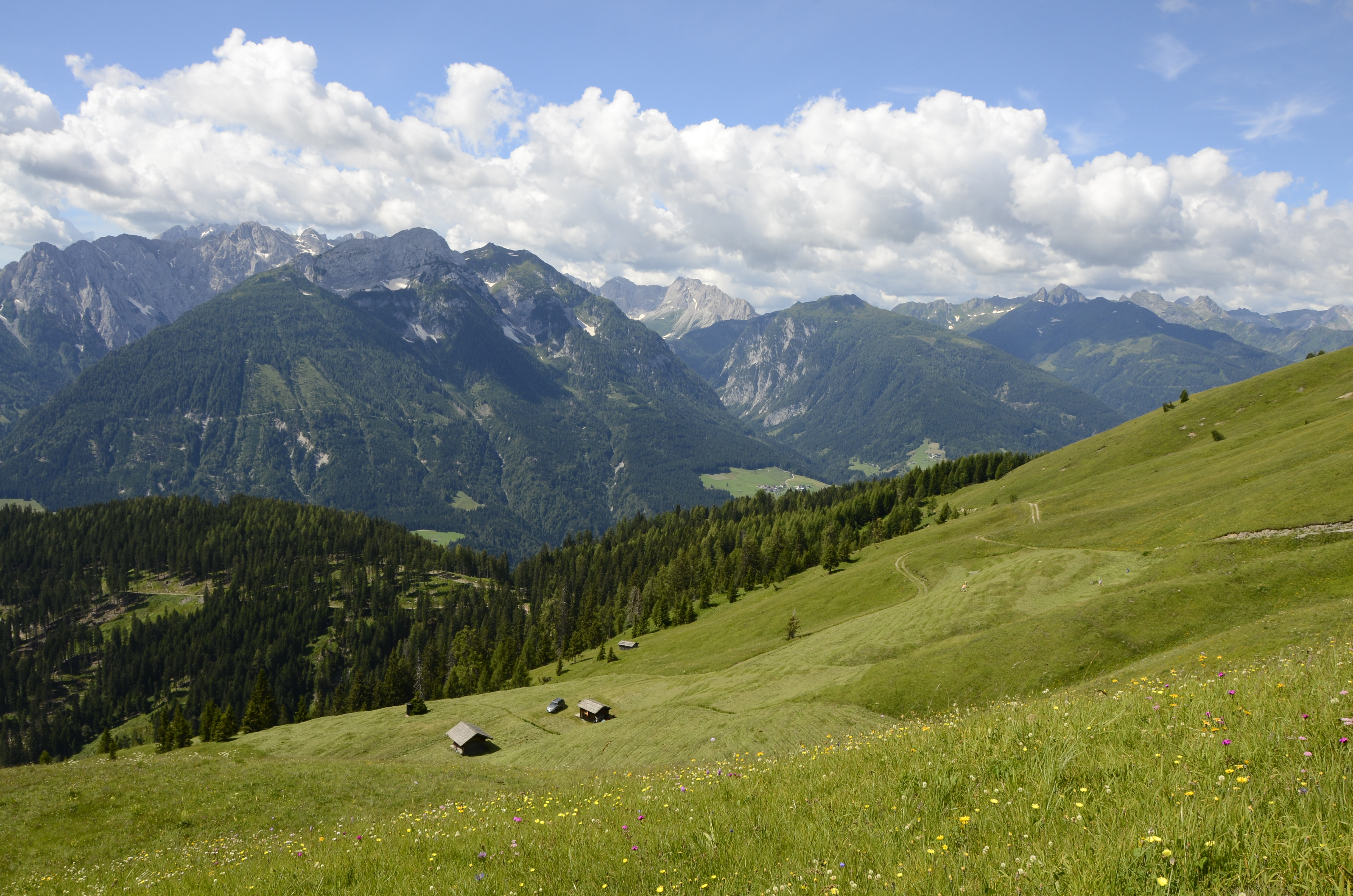 Haymaking on the Mussen alp at Strajach, municipality Kötschach-Mauthen, district Hermagor, Carinthia / Austria / EU